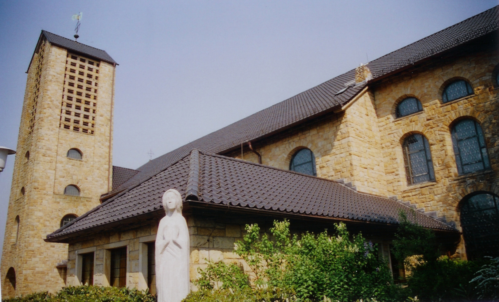 Roman Catholic St.-Mariä-Himmelfahrts-Kirche in Mettingen-Schlickelde, Kreis Steinfurt, North Rhine-Westphalia, Germany.